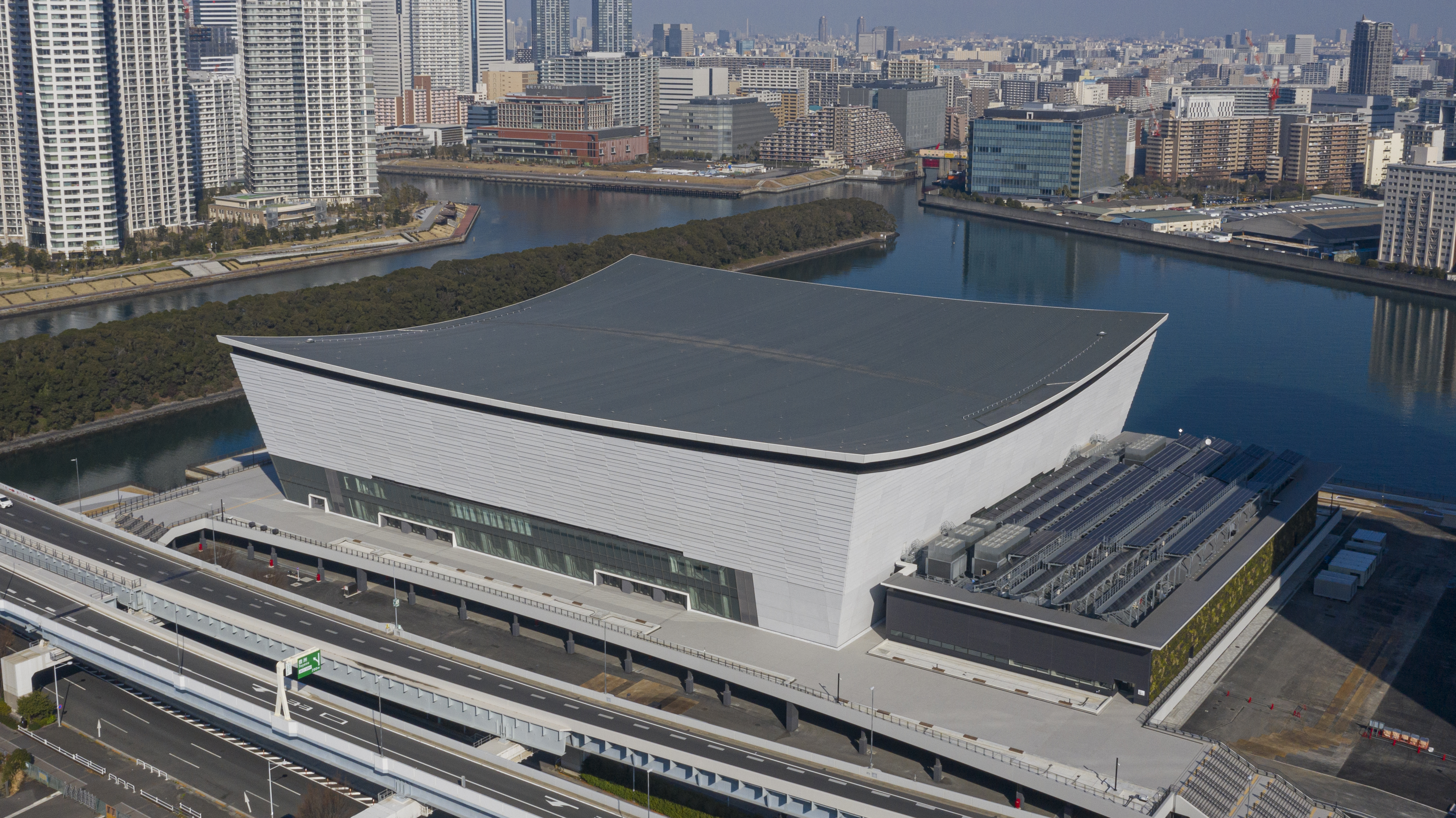 Aerial view of Tokyo Ariake Arena